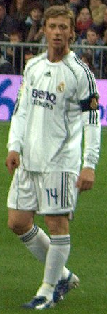 José María Gutiérrez. Image cropped from original at flickr.